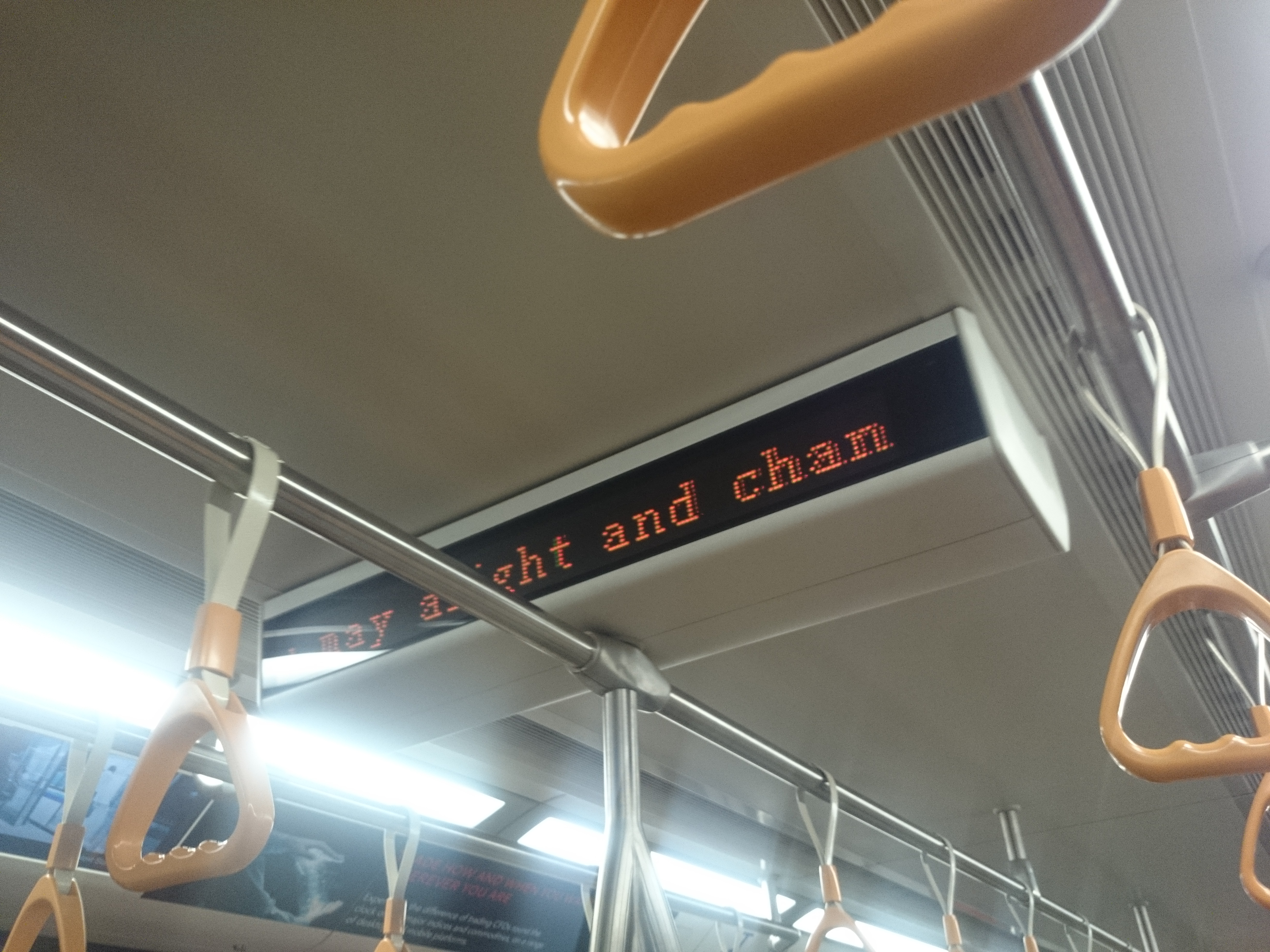 LED screen in C951 train